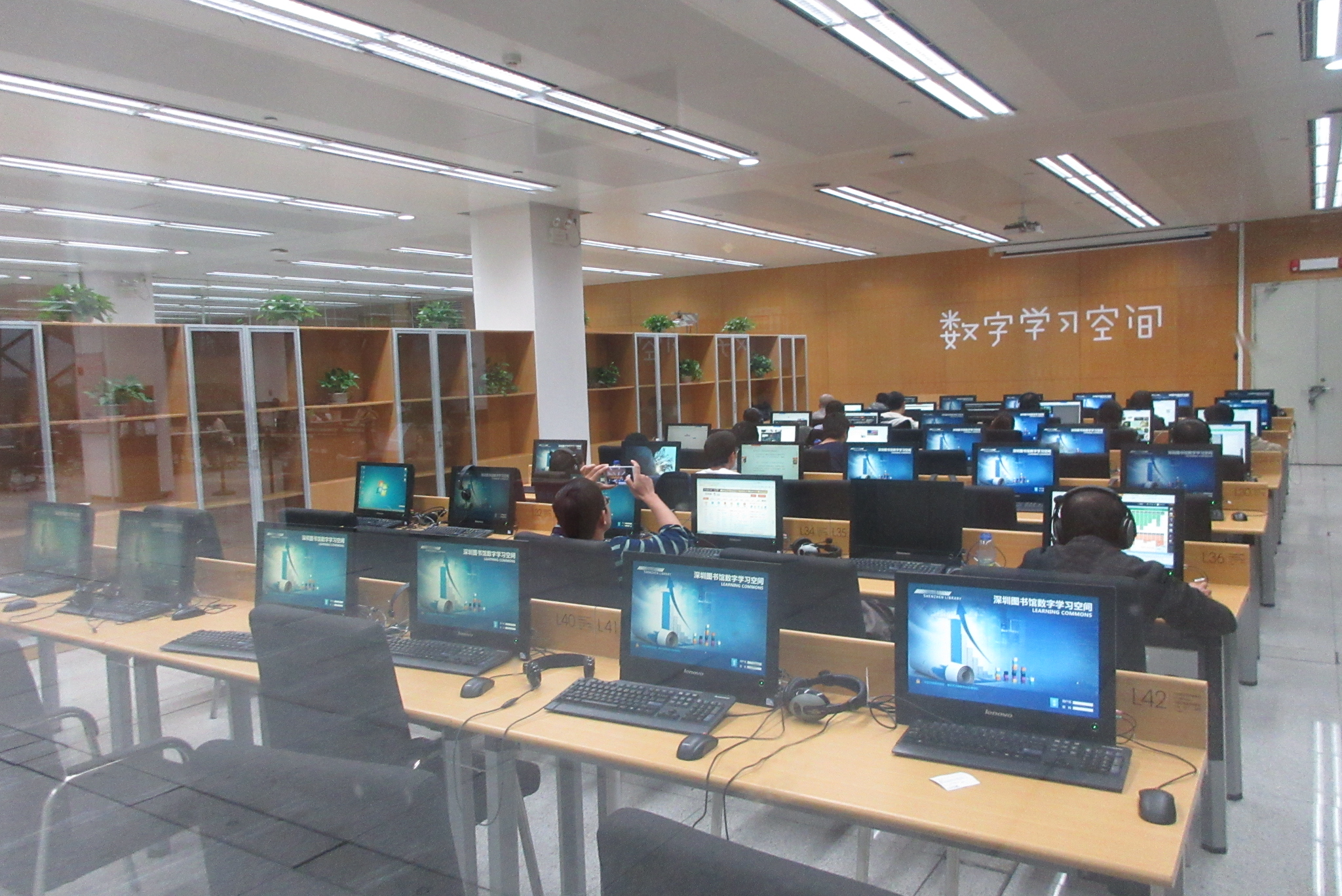 SZ 福田 Futian 深圳圖書館 Shenzhen Library in December 2017